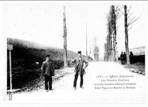 Contemporary photo soon after the Schnaebele incident. The German/French border is marked by the square-topped pole to left.